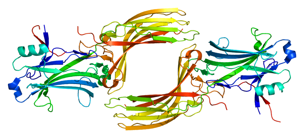 Structure of the ARRB1 protein. Based on PyMOL rendering of PDB 1g4m.